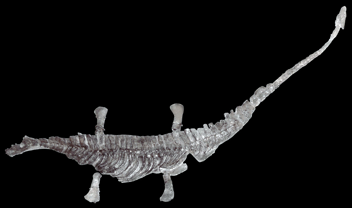 Microcleidus NHM